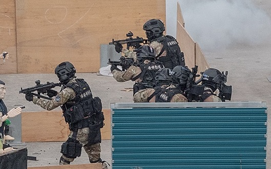 swat in taiwan